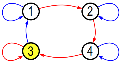 Synchronizing word for vertex 3: RRR